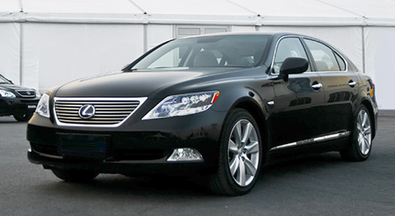 Lexus LS600hL with RX400h * Double "h" * Front 3/4